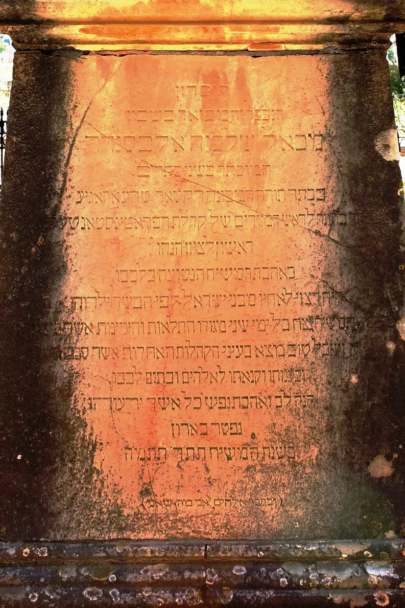 הכיתוב בעברית על המצבה